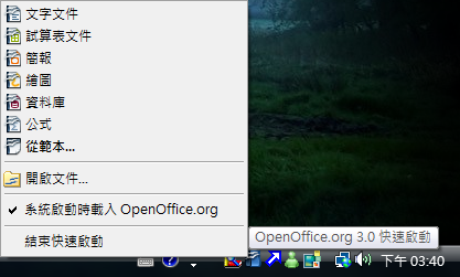 3.0 "open file"